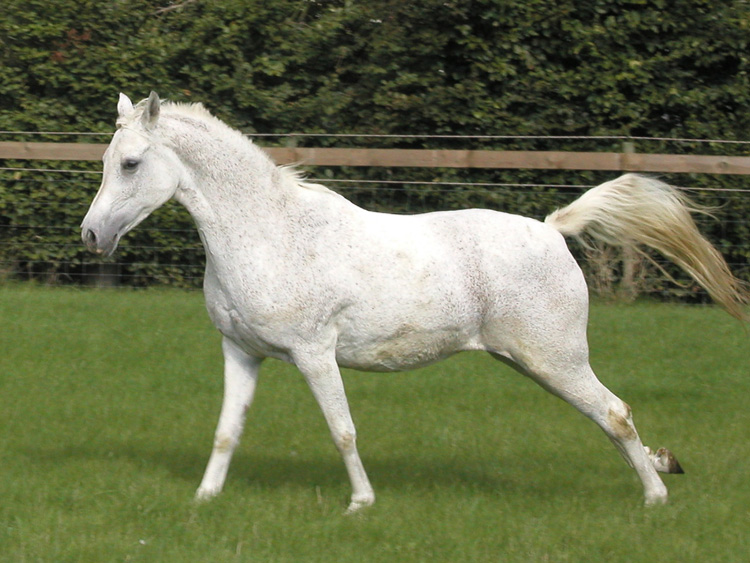 asil Arabian mare SCHABAKA of straight Egyptian bloodlines